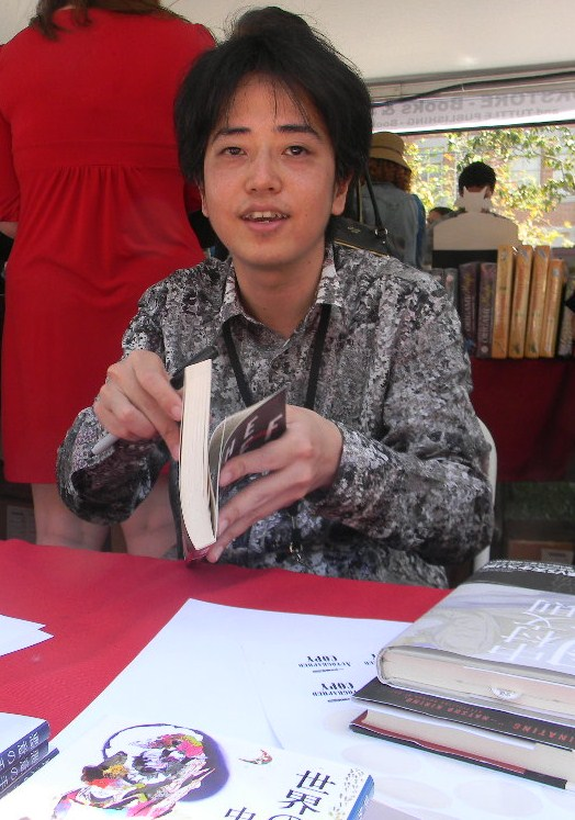 Author Nakamura Fuminori signing books at the 2013 Los Angeles Festival of Books.